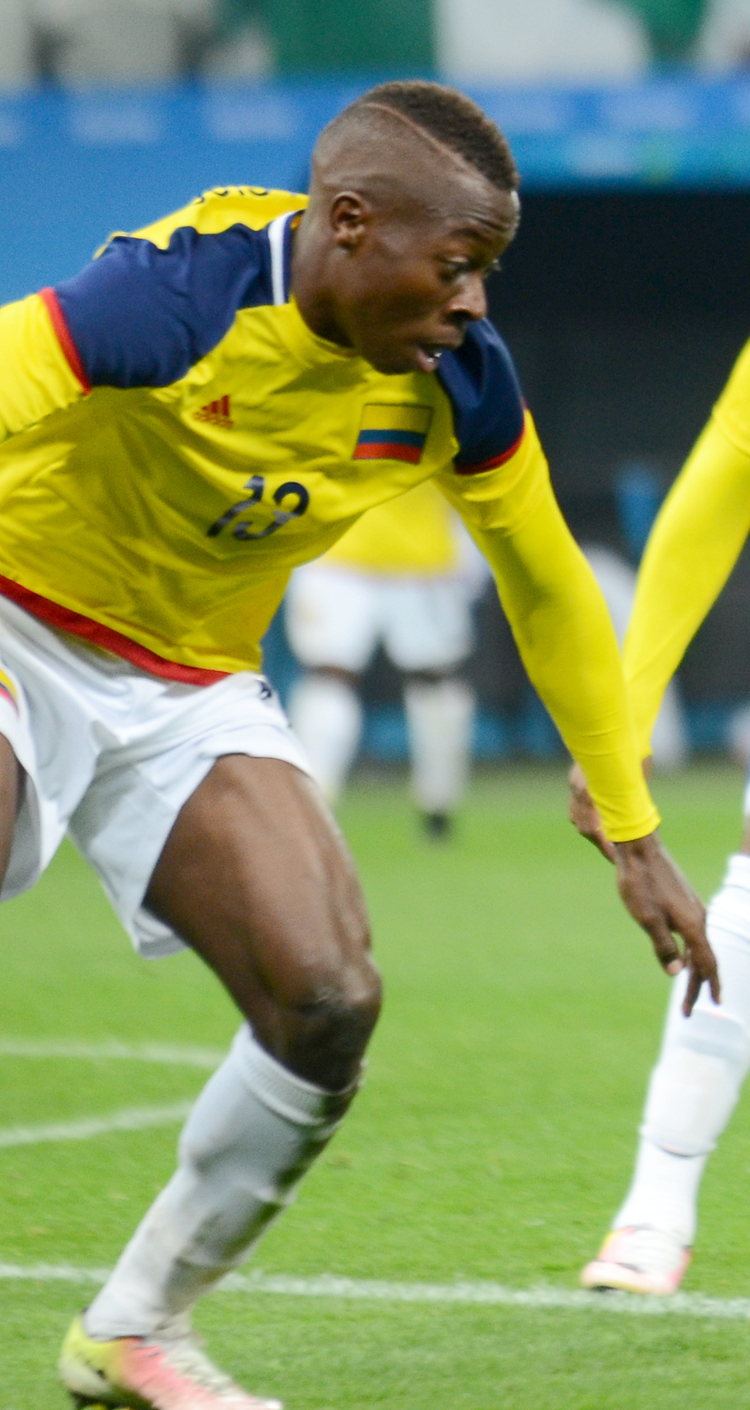 São Paulo - Colômbia vence a Nigéria por 2x0 na Arena Corinthians (Rovena Rosa/Agência Brasil)